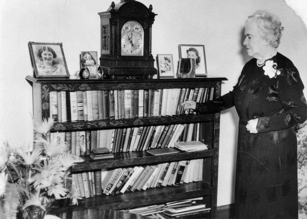 Sister Elizabeth Kenny shortly before her death, Toowoomba, ca. 1951.